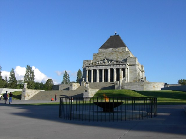 The Shrine of Remembrance in Melbourne, Australia is typical of thousands of war memorials in using the words of John 15:13 'no greater love' in its tribute to the fallen. Shrine of Remembrance. Shrine of Remembrance, Melbourne. 1954 - Additions to the Shrine of Remembrance.